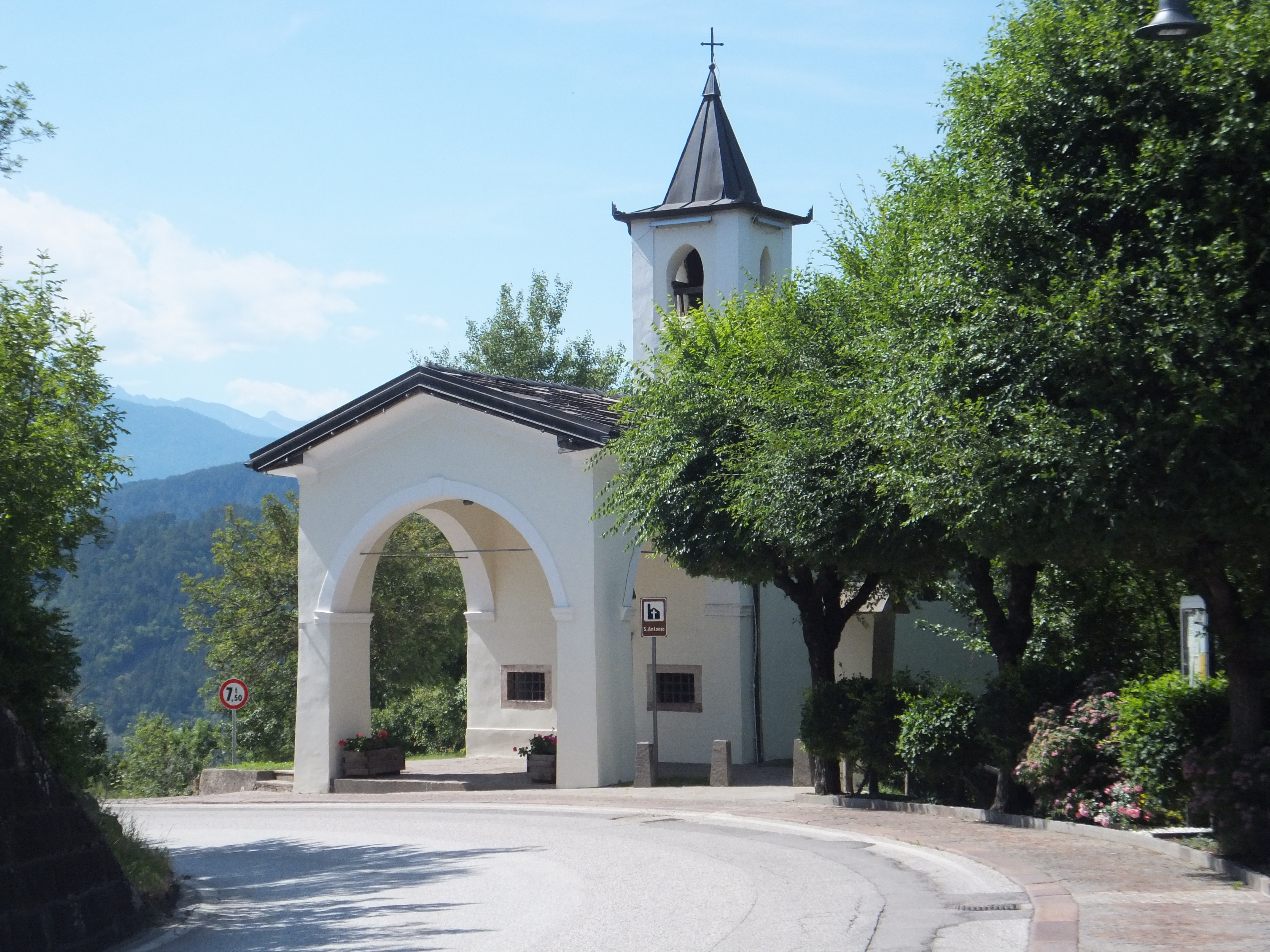 Albiano (Trentino, Italy) - Church of Saint Anthony